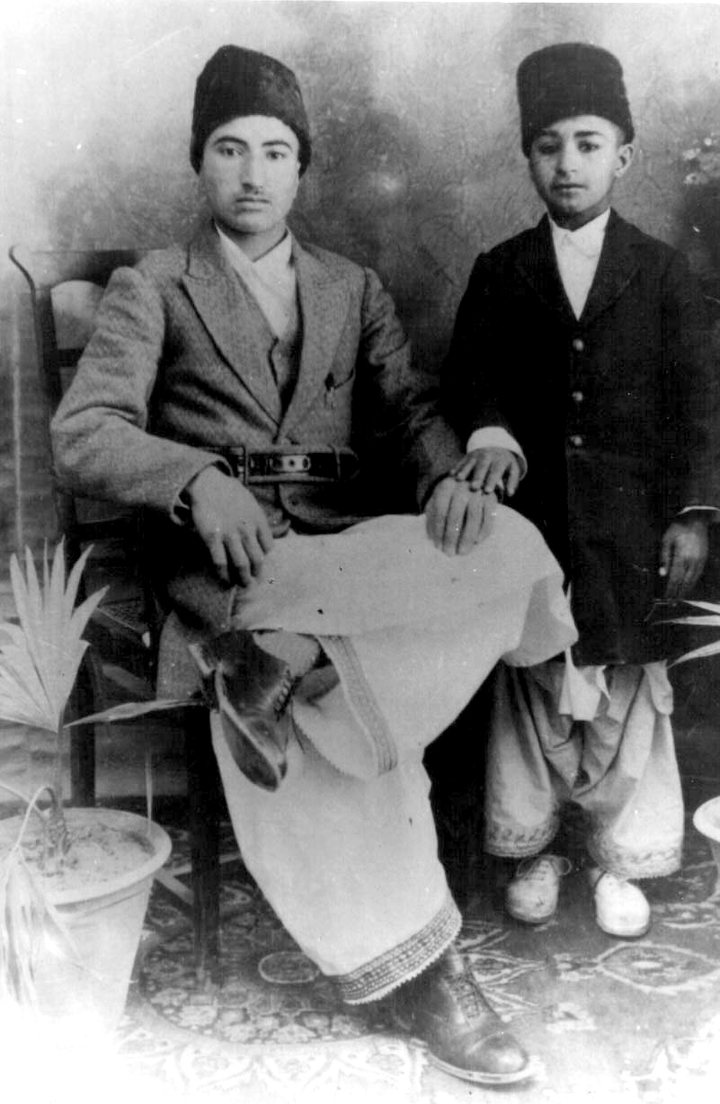 Shahzada Rehamatullah Khan Durrani with half Brother Abdul Rasheed Khan Durrani 17-01-1931 British Empire, Quetta